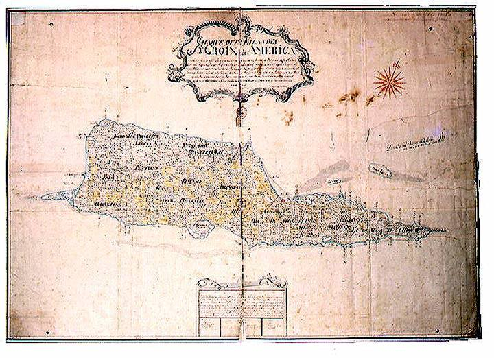 First Danish map over St. Croix. Made by Johan Cronenberg and Johan Jægersberg in 1750